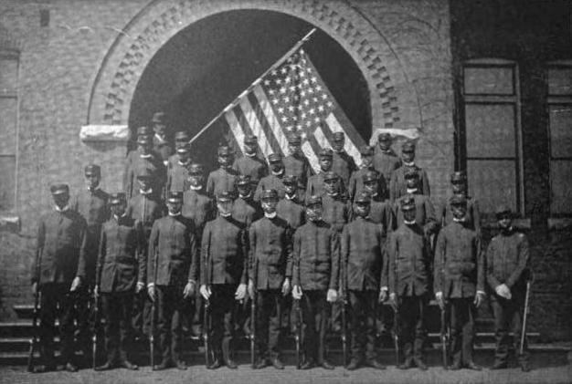 Cadets at Knoxville College in Knoxville, Tennessee, USA, photographed c. 1903.